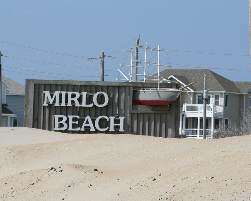 Mirlo Beach (Rodanthe, Waves, Salvo), Outer Banks, North Carolina, United States